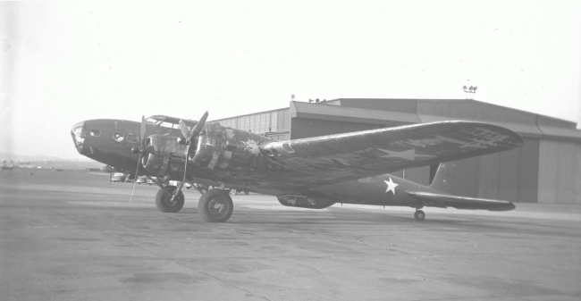 Repository: San Diego Air and Space Museum Archive